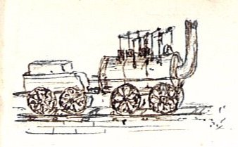 Sketch of the steam locomotive Locomotion, drawn in 1892 when it was placed on display at Darlington station. Detail from ink sketch "Bellshill, 1892"